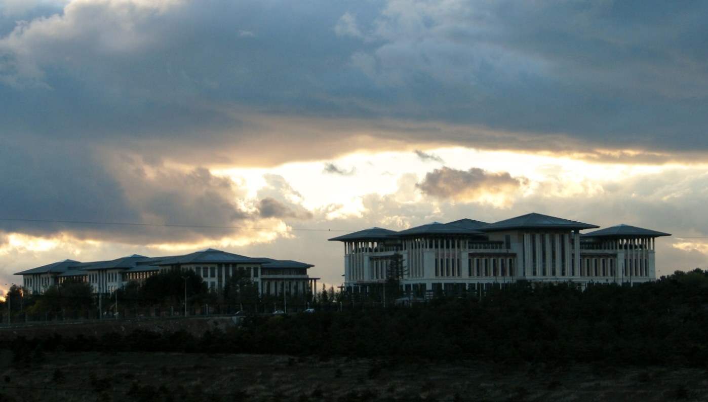 New Presidential Compound (Ak Saray) in Ankara, AOÇ (Beştepe)